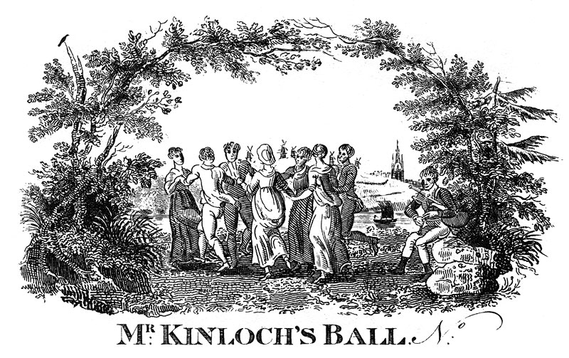 An engraving for a ball ticket, by Robert Bewick from a drawing by Thomas Bewick. The piper, seated, is Robert himself.